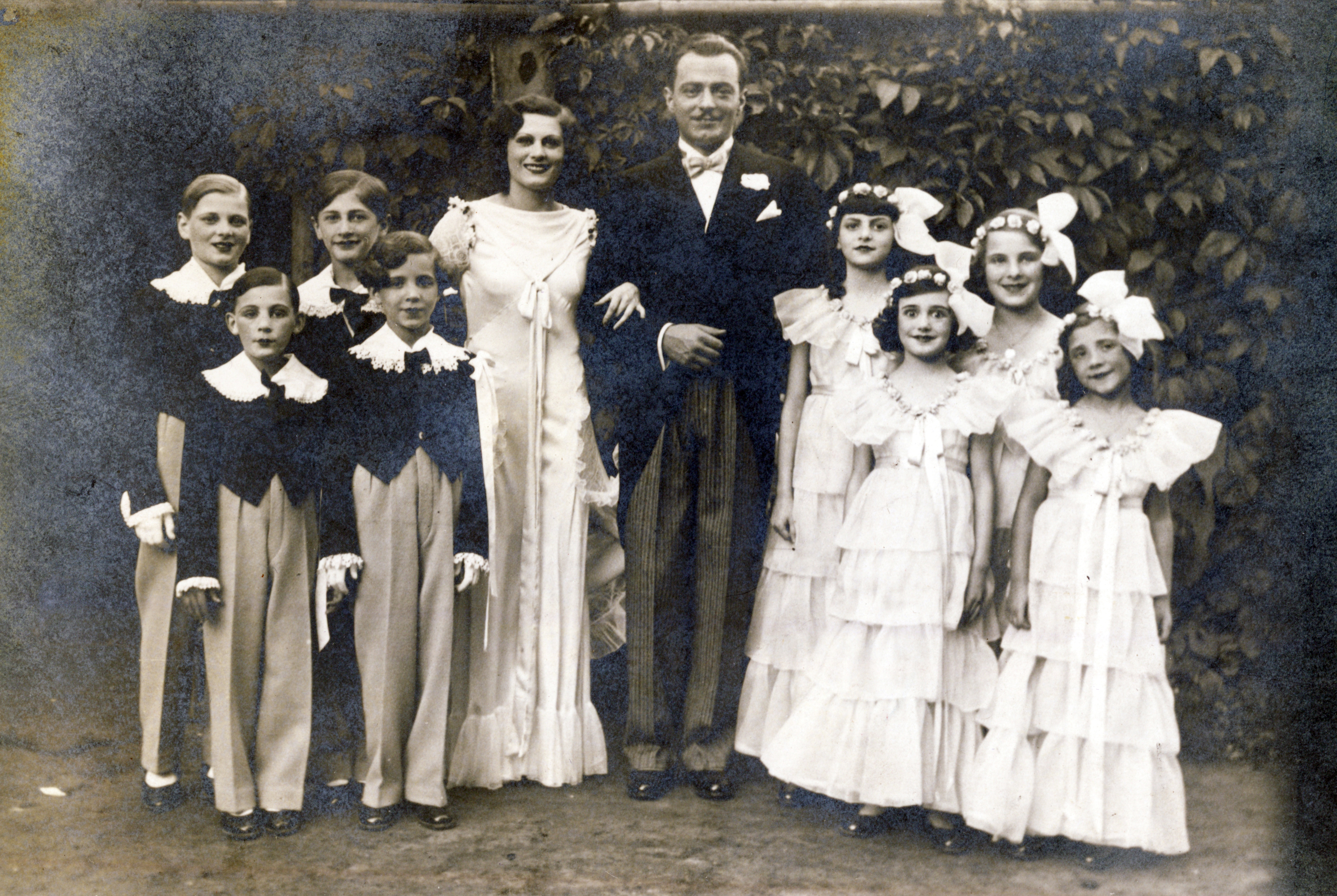 Lackner Bácsi Gyermekszínháza. 1934, Középen Jávor Pál, az első sorban balról jobbra a második Ruttkai Iván, a sor végén Ruttkai Éva